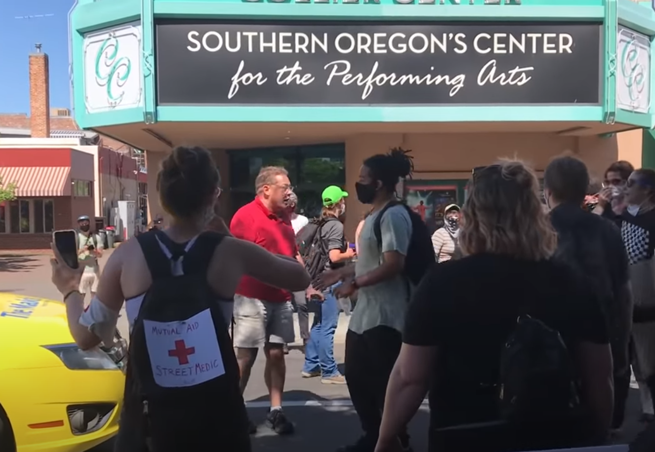 Phoenix, Oregon Mayor Chris Luz (in red) arguing with Medford, Oregon marchers on June 1 2020. Full-length video from Keegan Van Hook is on Youtube; this specific screenshot is licensed CC-BY-SA, the video and other screenshots are not covered in this license.